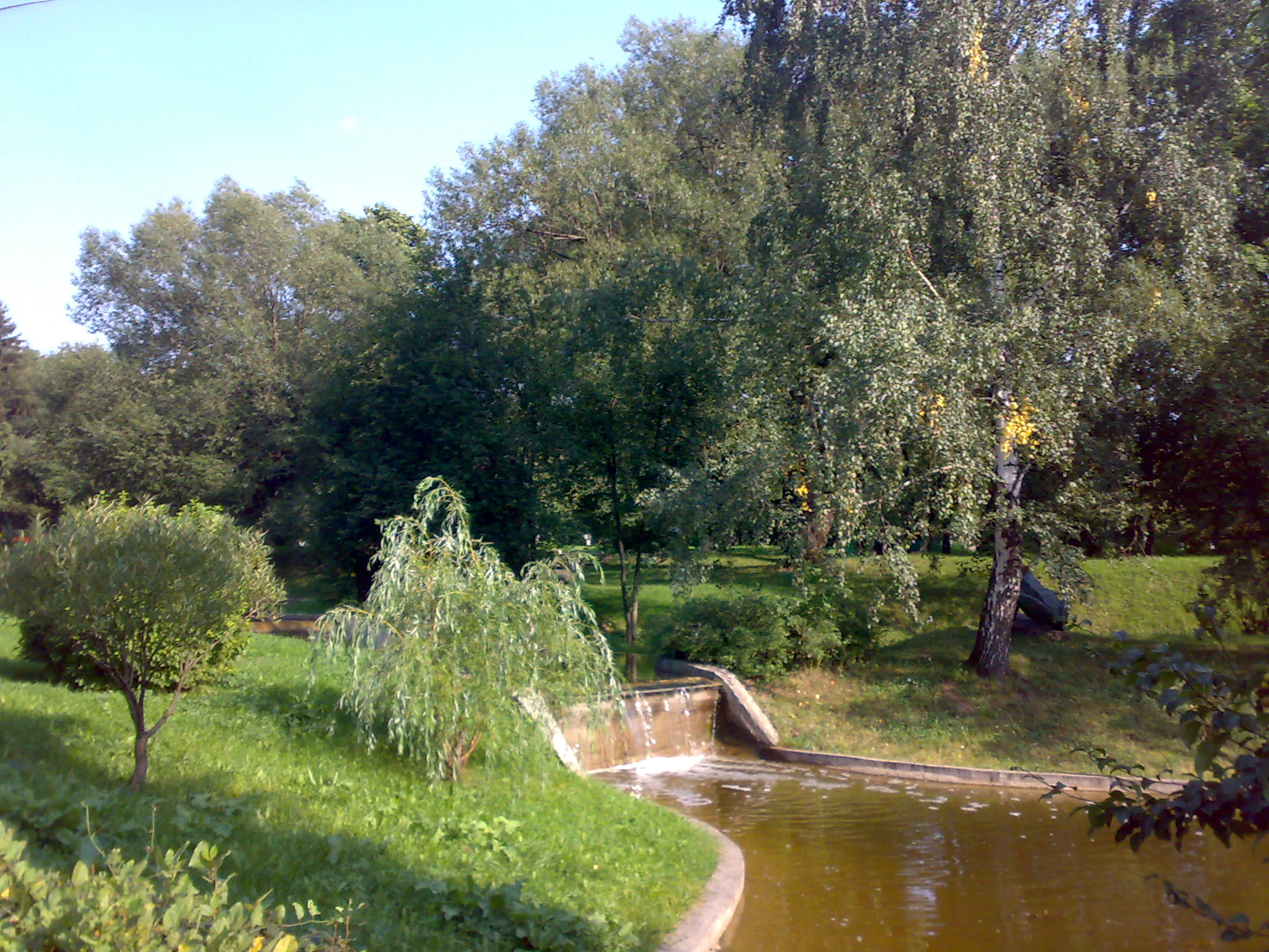 took this image using my mobile phone, on 8 September, 2008. Pond in a park, Mosfilm Studios, Moscow.